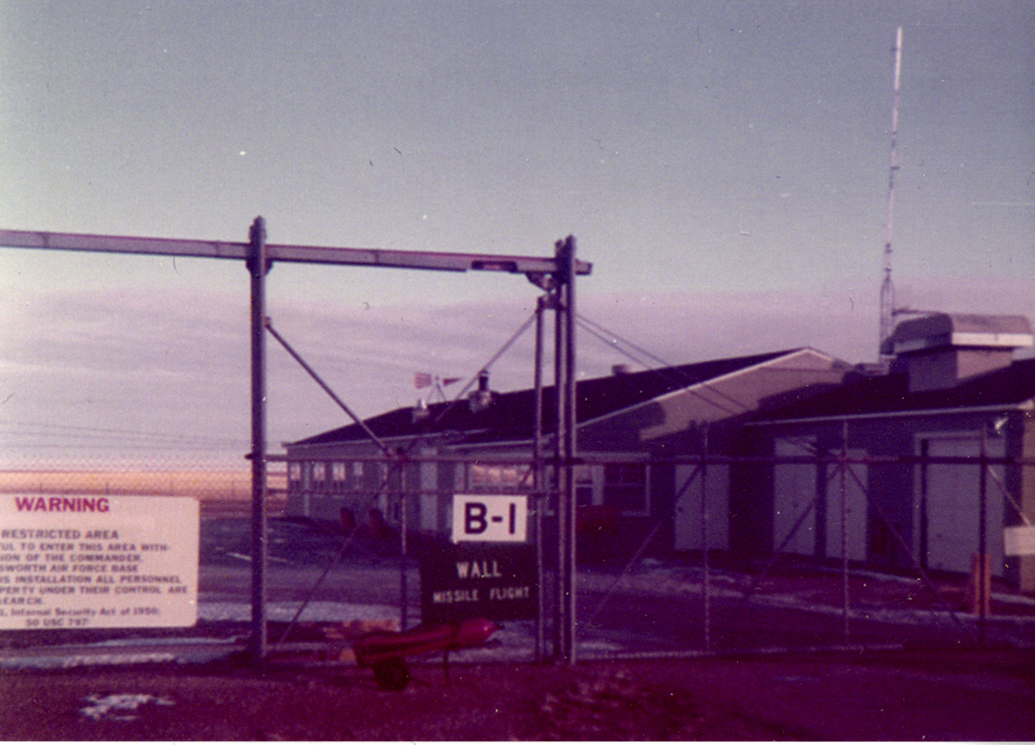 An earlier photo of Launch Control facility Bravo-01 which was approximately 4 miles west of Wall, South Dakota